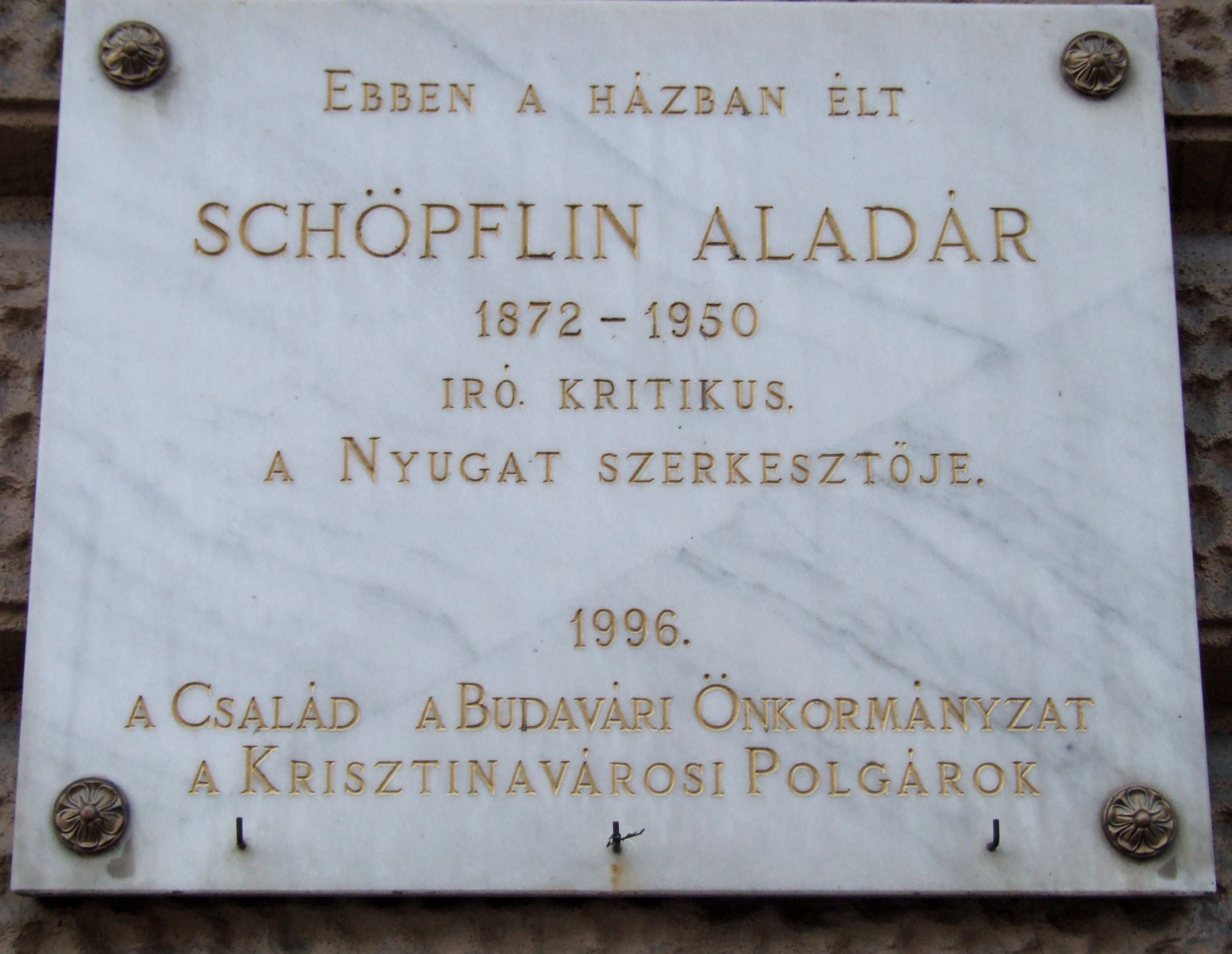 Commemorative plaque of Aladár Schöpflin in Budapest District I, Attila Street No 79